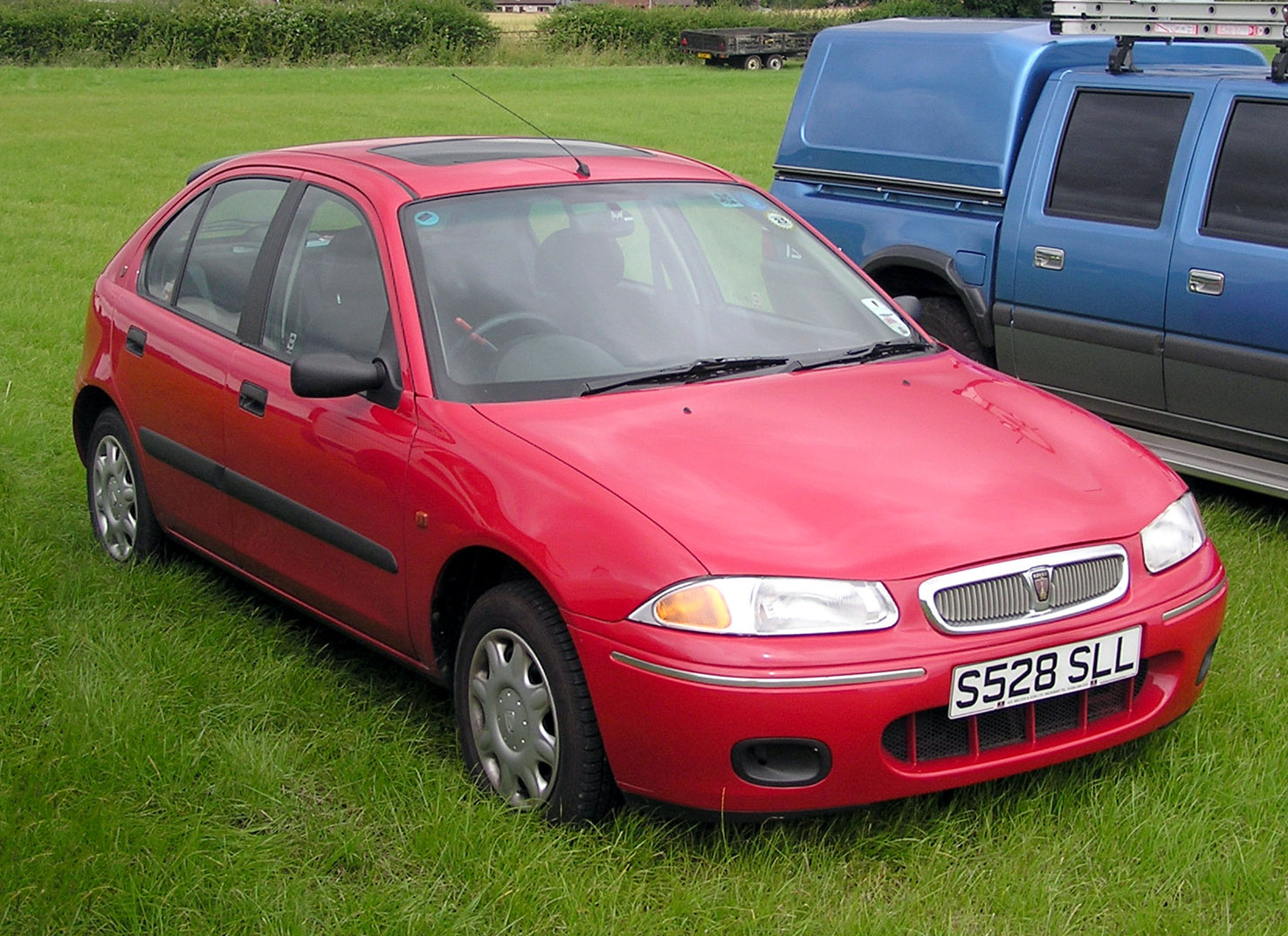 1999 Rover 200 at Coalpit Heath Car Show, near Bristol, England. Taken by Adrian Pingstone in July 2004 and released to the public domain.